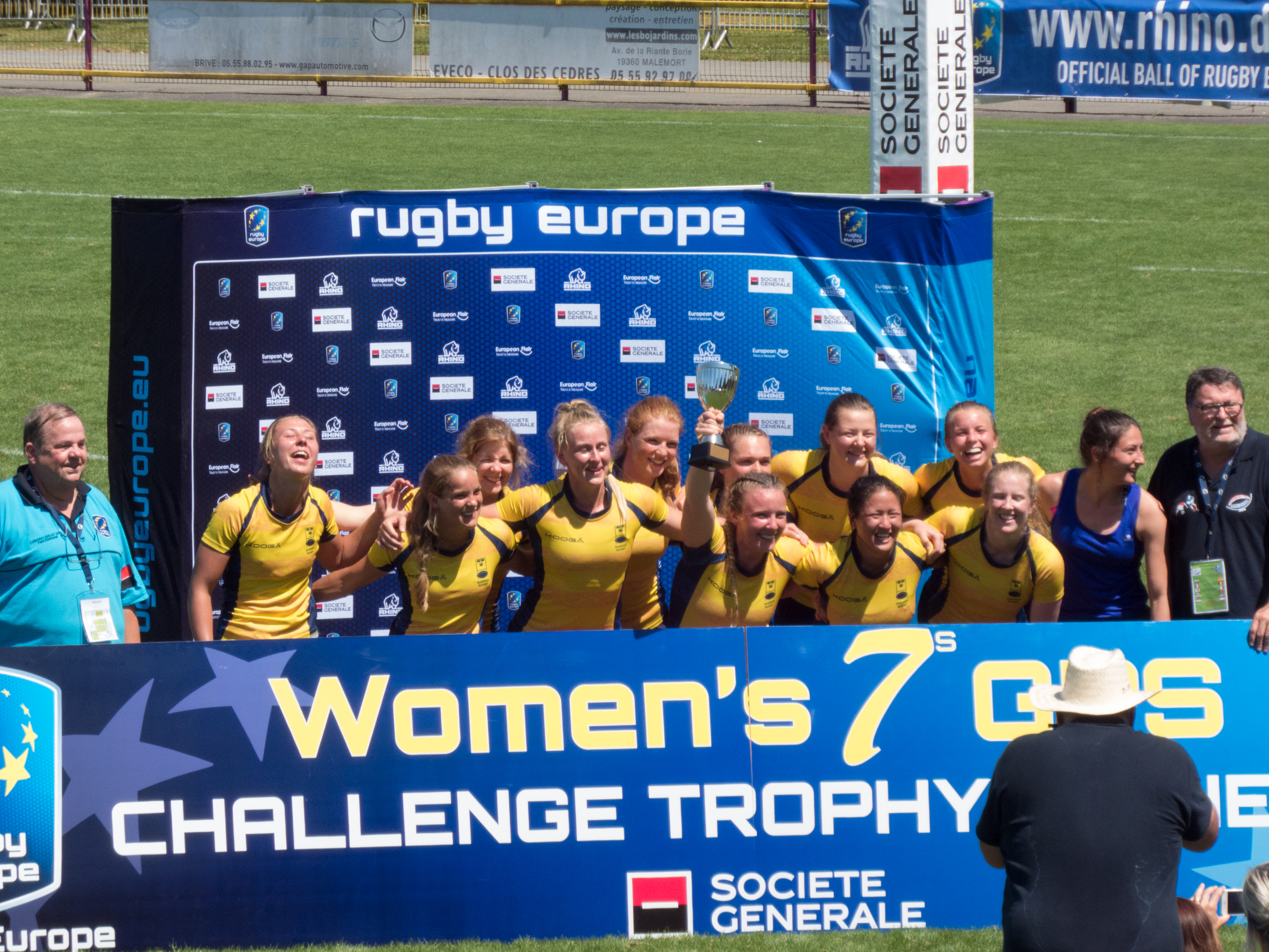 Malemort Sevens 2017 — 18 June 2017, stade Raymond-Faucher. Match between: Poland — Sweden